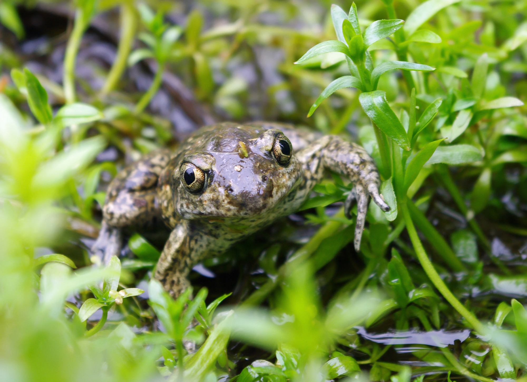 Young male European Spadefoot Toad (Pelobates fuscus) – unusually diurnal in the riparian zone of its spawning water.